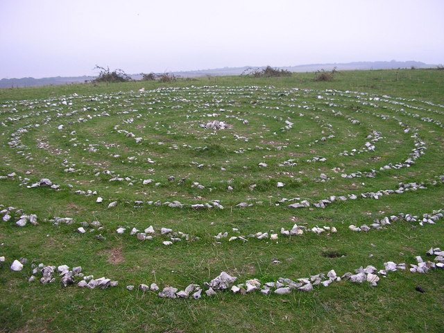 Stone Labyrinth on Ballard Down This spiral labyrinth was discovered at the top of Ballard Down, I assume it isn't a permanent feature.